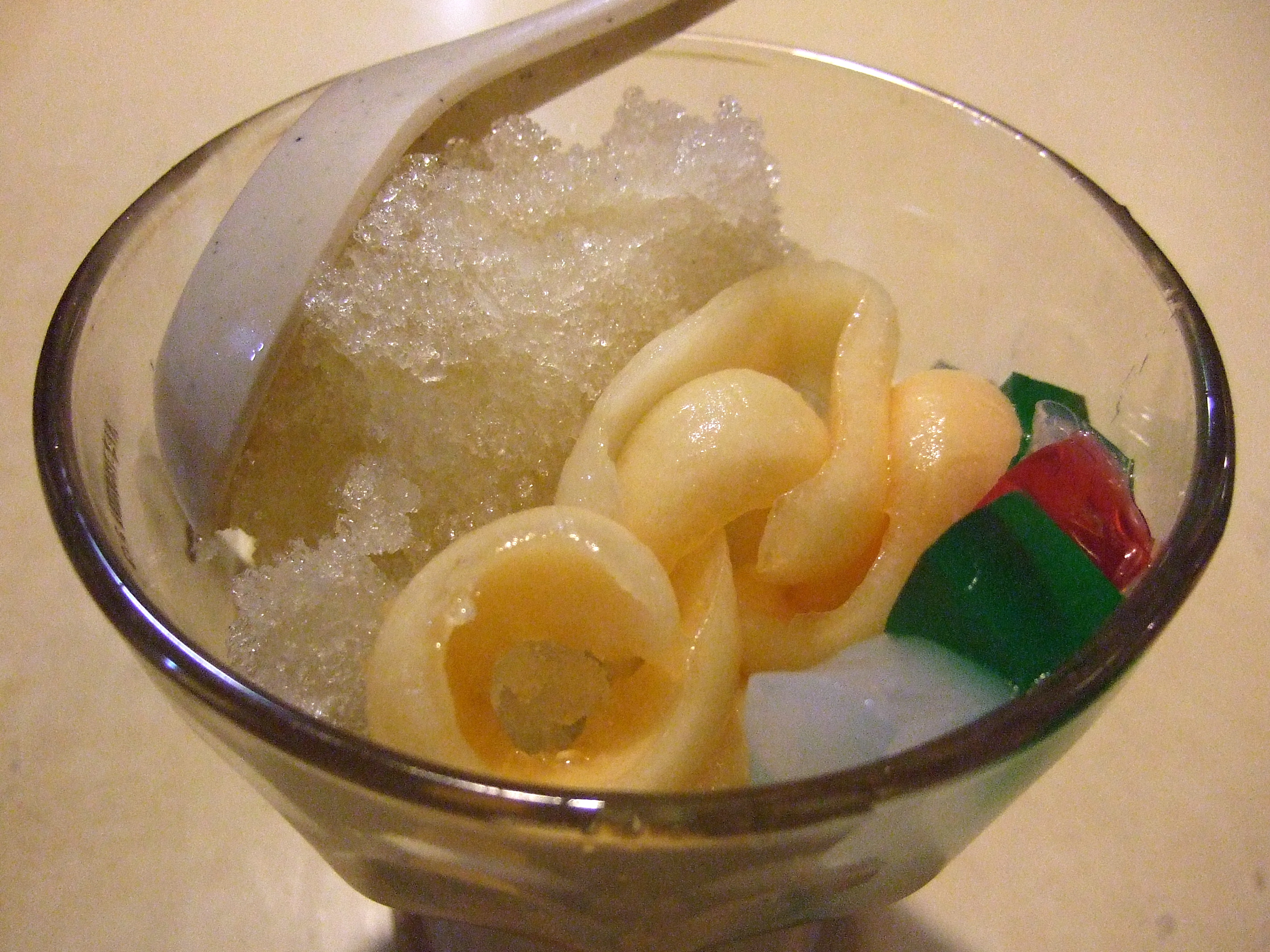 Blewah ice